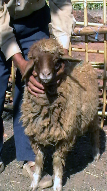 Timahdit young ewe after recovering from Ovine Rinderpest Walon: Oviete Timahdite k' est rfwaite del Pesse des berbis et des gades